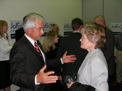 John Cox at the Republican Party of Iowa's Lincoln Day Dinner -- April 14, 2007 in Des Moines. Read coverage